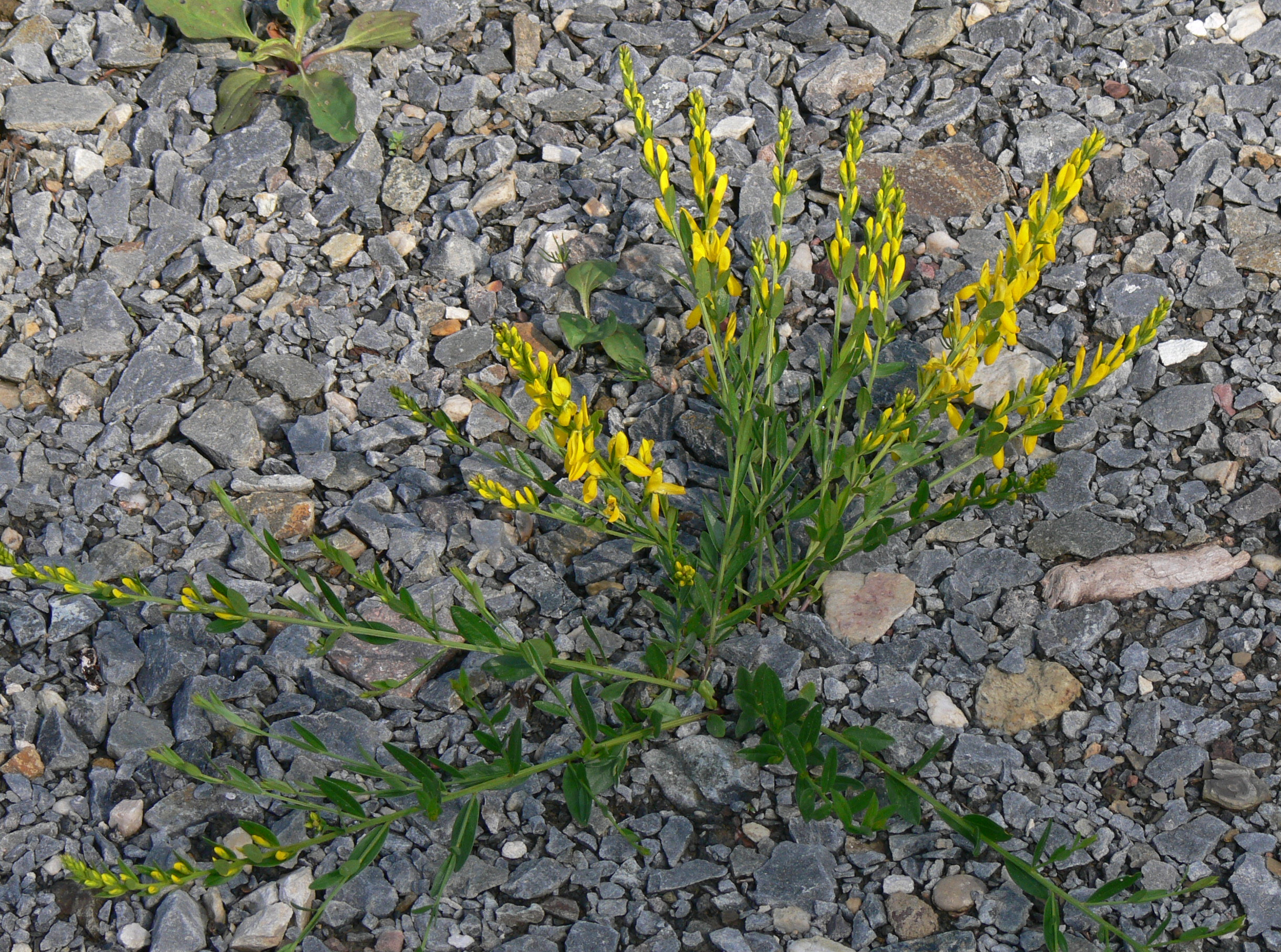 Dyer's Broom